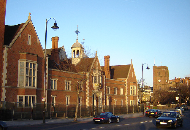 Crosby Hall, Cheyne Walk, Chelsea, London. Chelsea Old Church in background. 21 January 2006. Photographer: Fin Fahey.